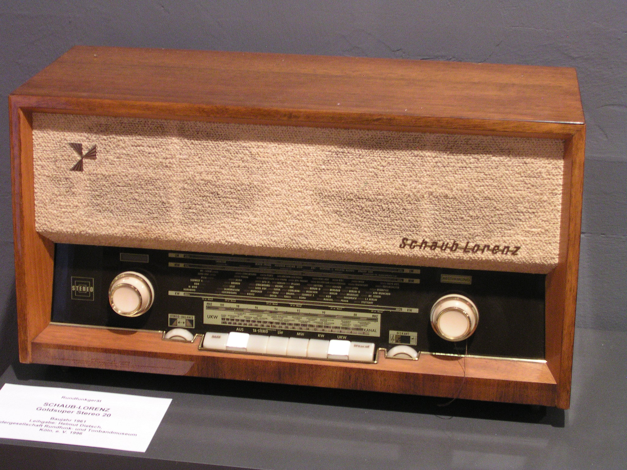 Schaub-Lorenz Goldsuper Stereo 20 - 6-tube stereo AM/FM receiver, 1961-62. Dual ultralinear SE output stage based on a single ELL80 double pentode. [1]